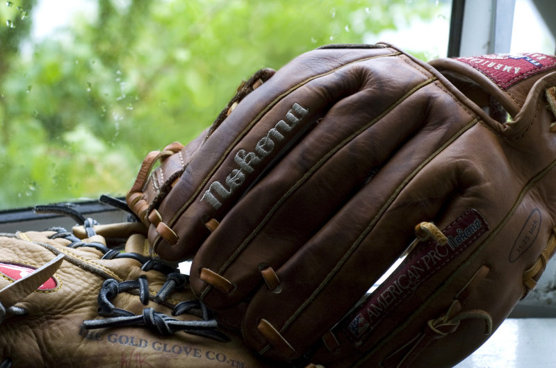 Nokona Baseball Glove